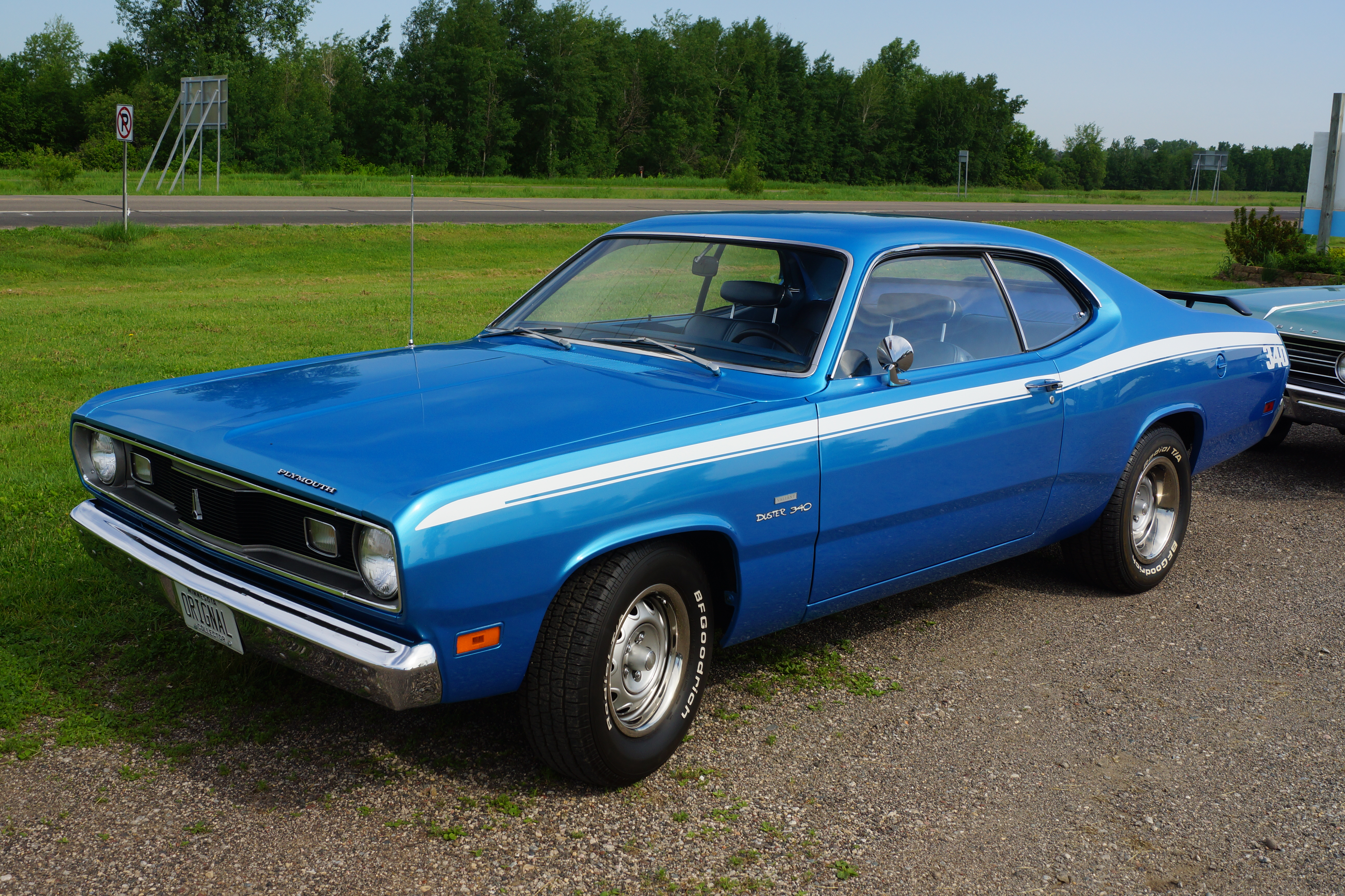 1970 Plymouth Duster 340. Studebaker Drivers Club (North Star Chapter), 42nd Annual Memorial Day Car Show. Held at the Blacksmith Lounge in Hugo, Minnesota